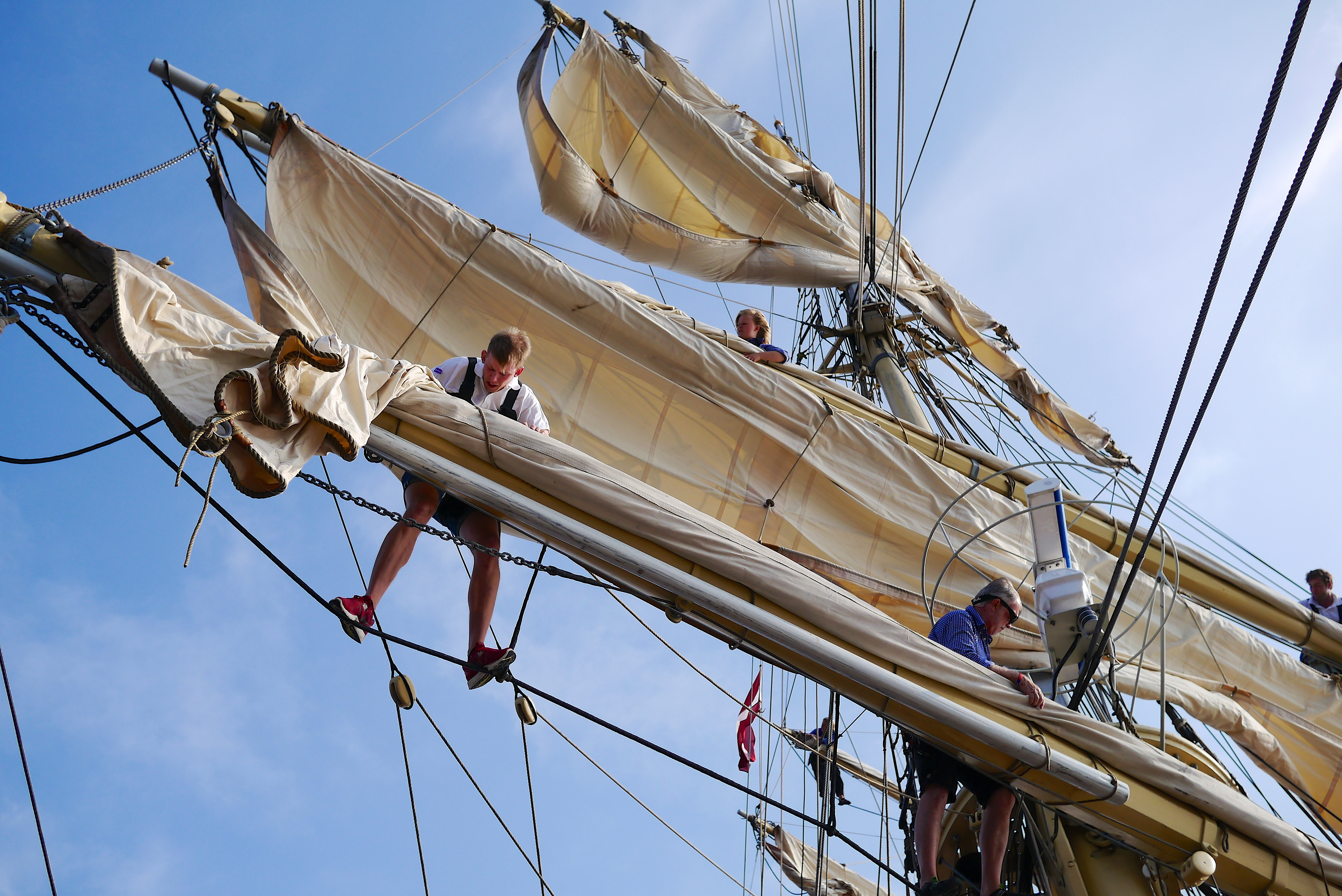 Sailors working aloft the Tre Kronor af Stockholm during the Tall Ships' Races 2013 (in or near Riga?!)